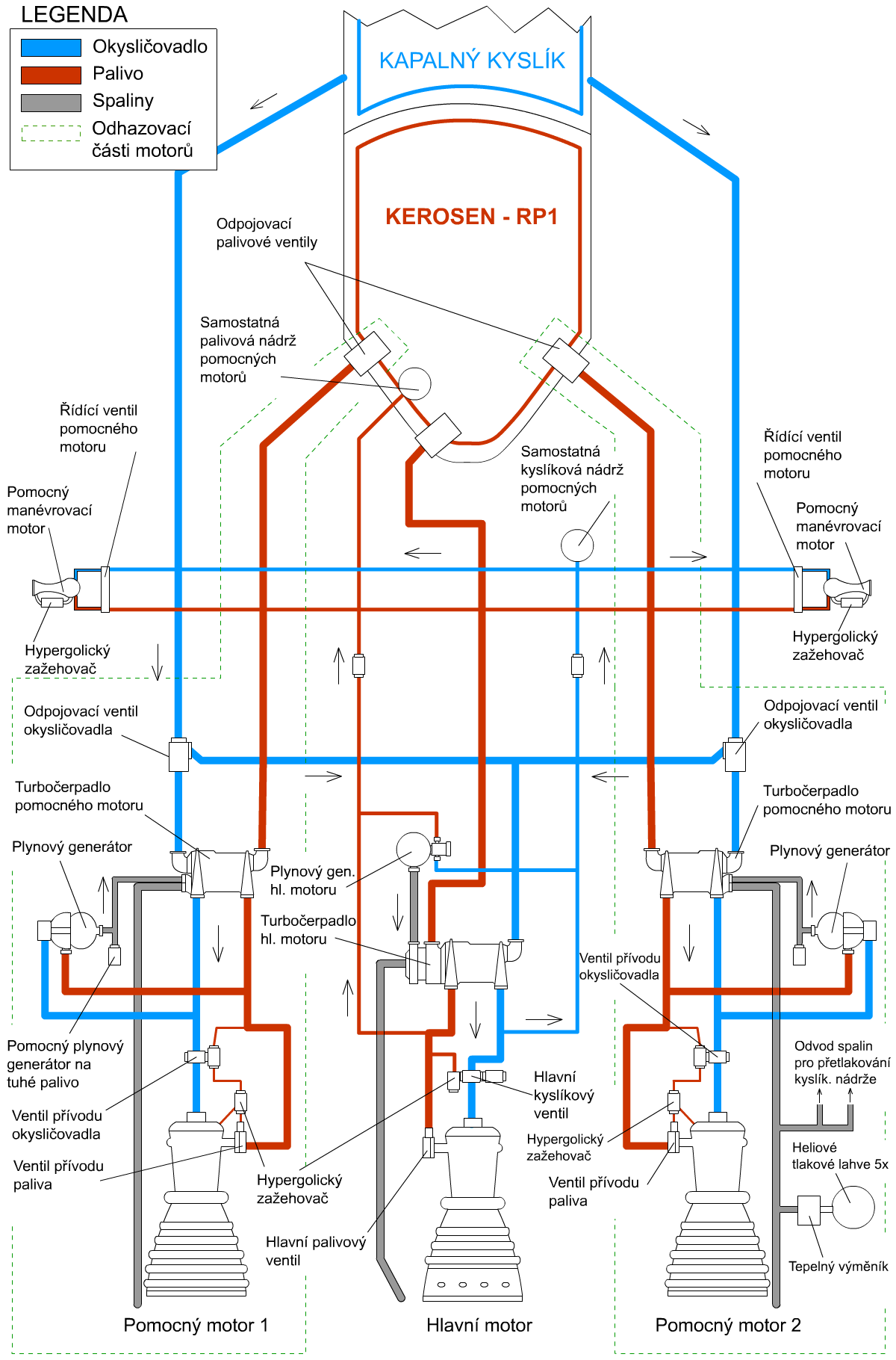 Atlas rocket fuel system